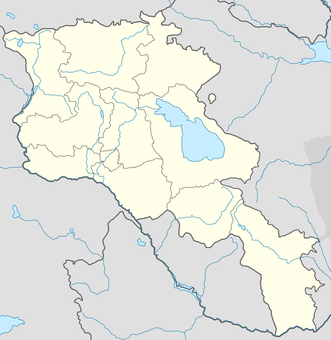 Location map of Armenia with NKR